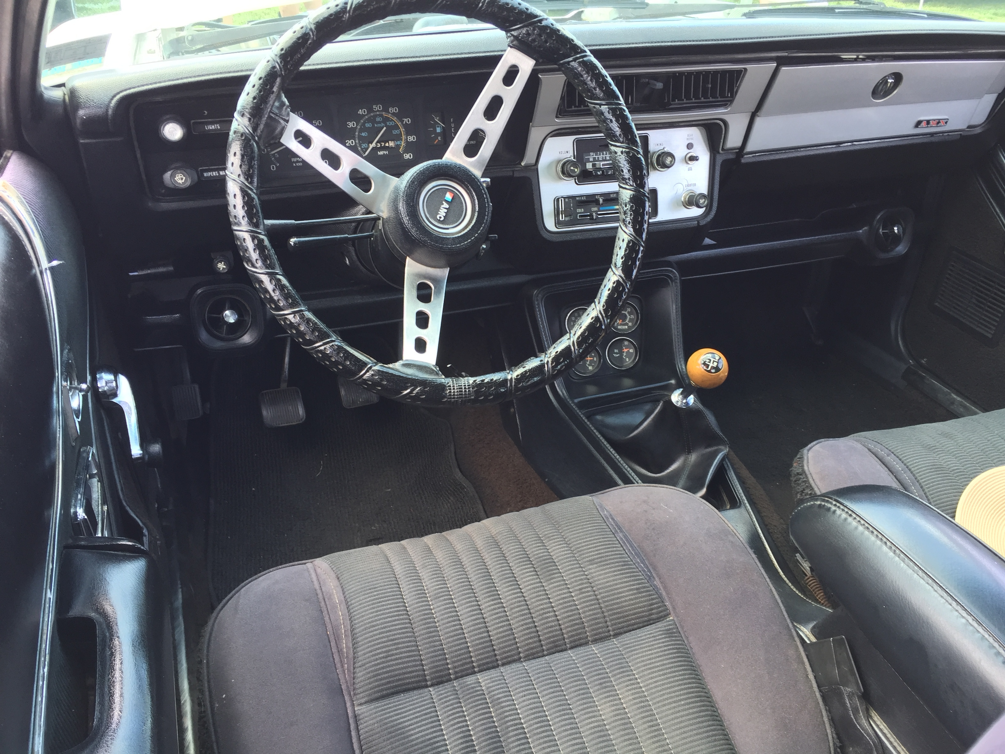 1979 AMC AMX, a sports compact built by American Motors. This car has AMC's V8 and the standard 4-speed manual transmission. Finished in Olympic White (code 9B) with AMX's standard bodyside trim and the optional hood decal. This is the one production year for the "AMX" version with the 304 cu in (5.0 L) V8 using the AMC Spirit platform. Photograph taken during the American Motors Owners Association (AMO) annual convention that was held July 2015 near Cleveland, Ohio.